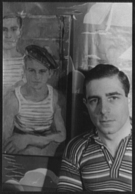 Carl Van Vechten (1880-1964)/LOC van.5a52069. Maurice Grosser, 1935